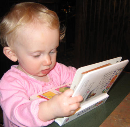 Young child with book.